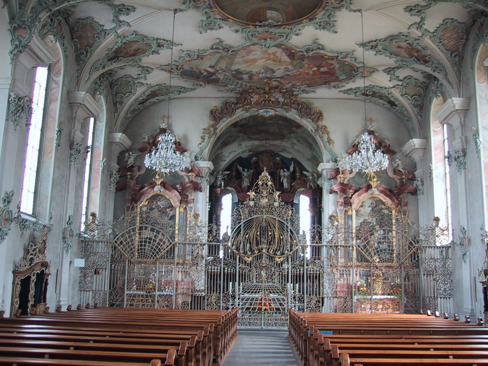 Former Collegiate church Saint Ulrich and Afra, Kreuzlingen, interior. Photographer Peter Berger (self-made picture).Picture taken July 4 2005.